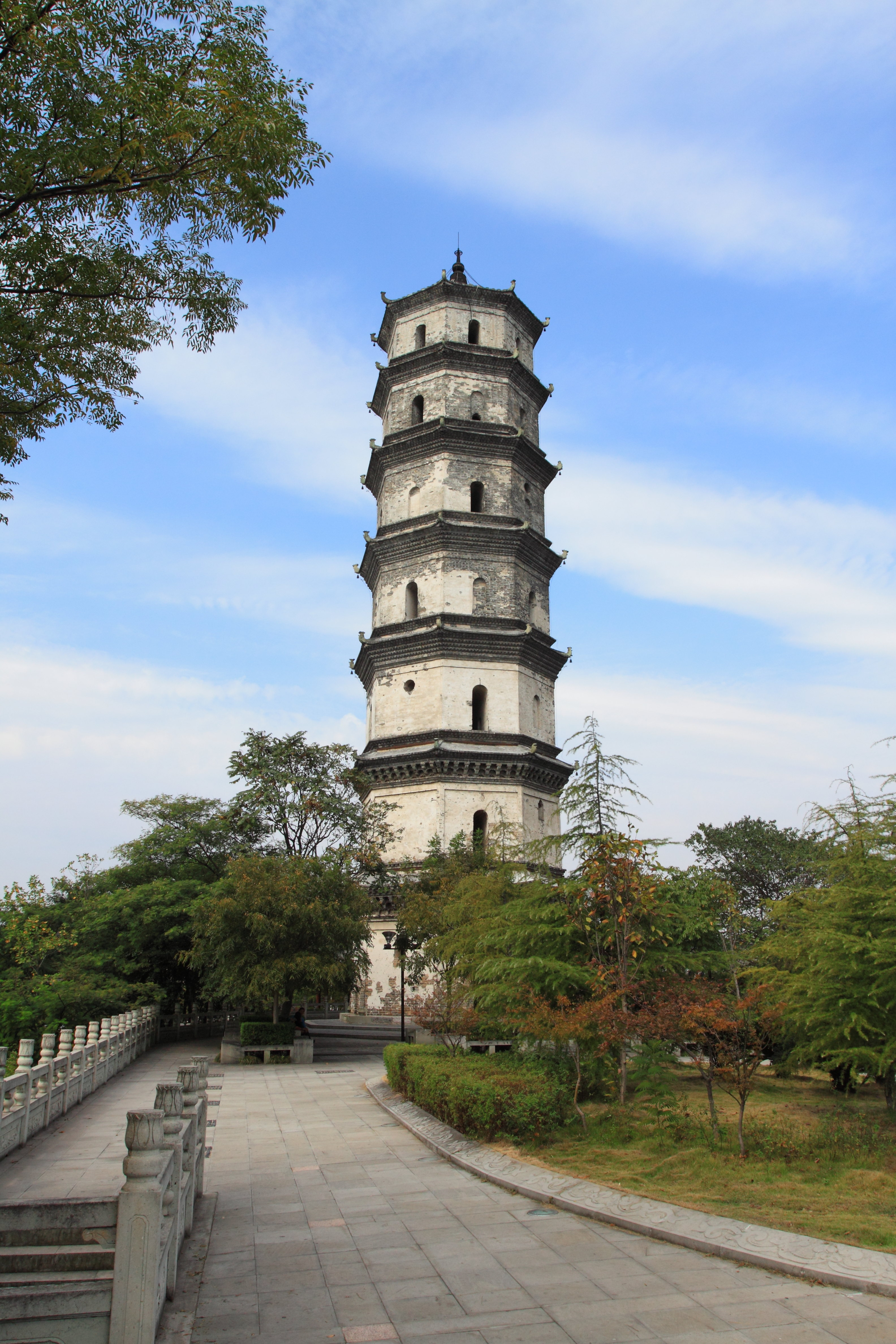 Kuiwen pogoda in Shangrao, Jiangxi, China.